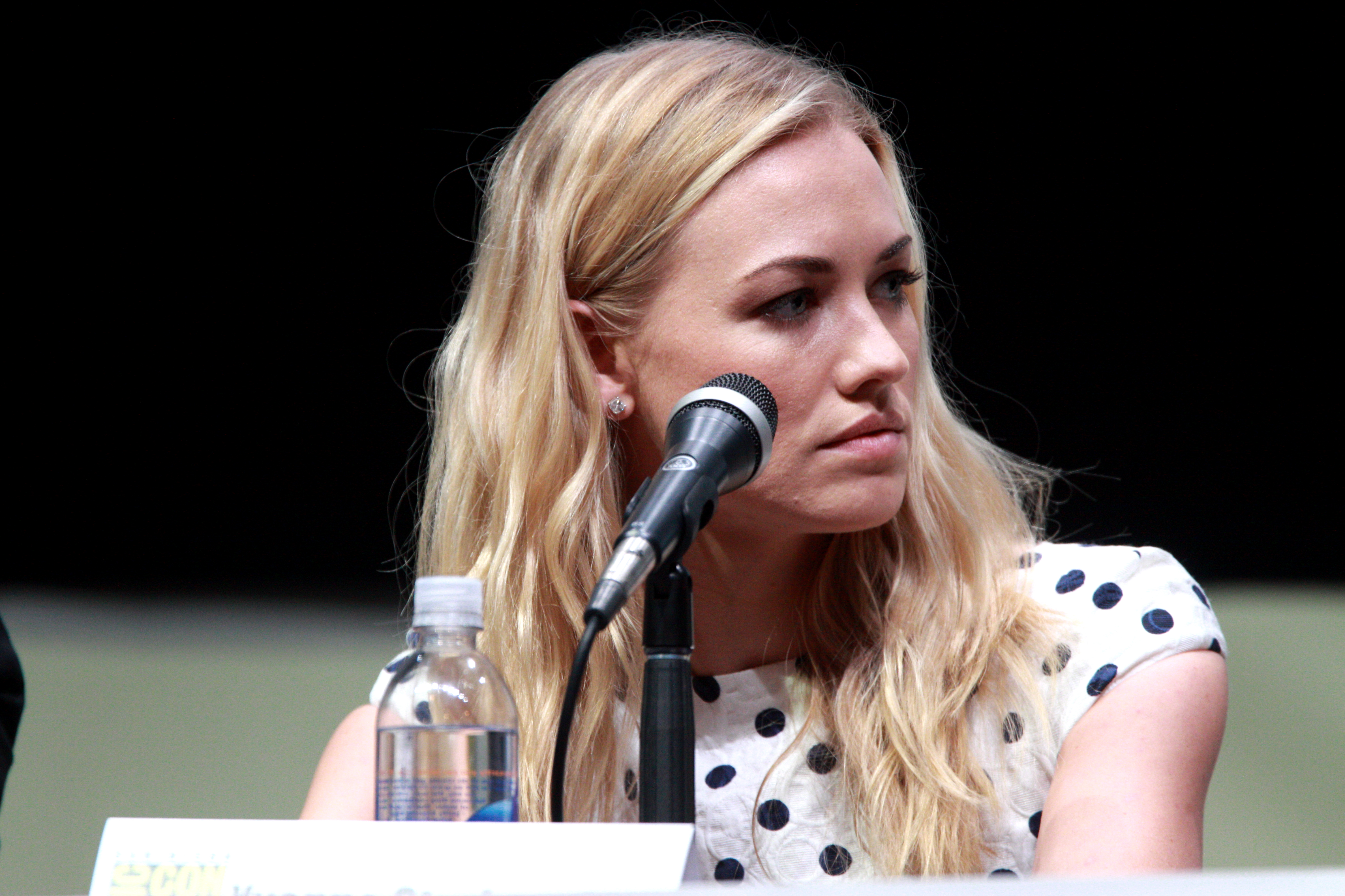 Yvonne Strahovski speaking at the 2013 San Diego Comic Con International, for "Dexter", at the San Diego Convention Center in San Diego, California.